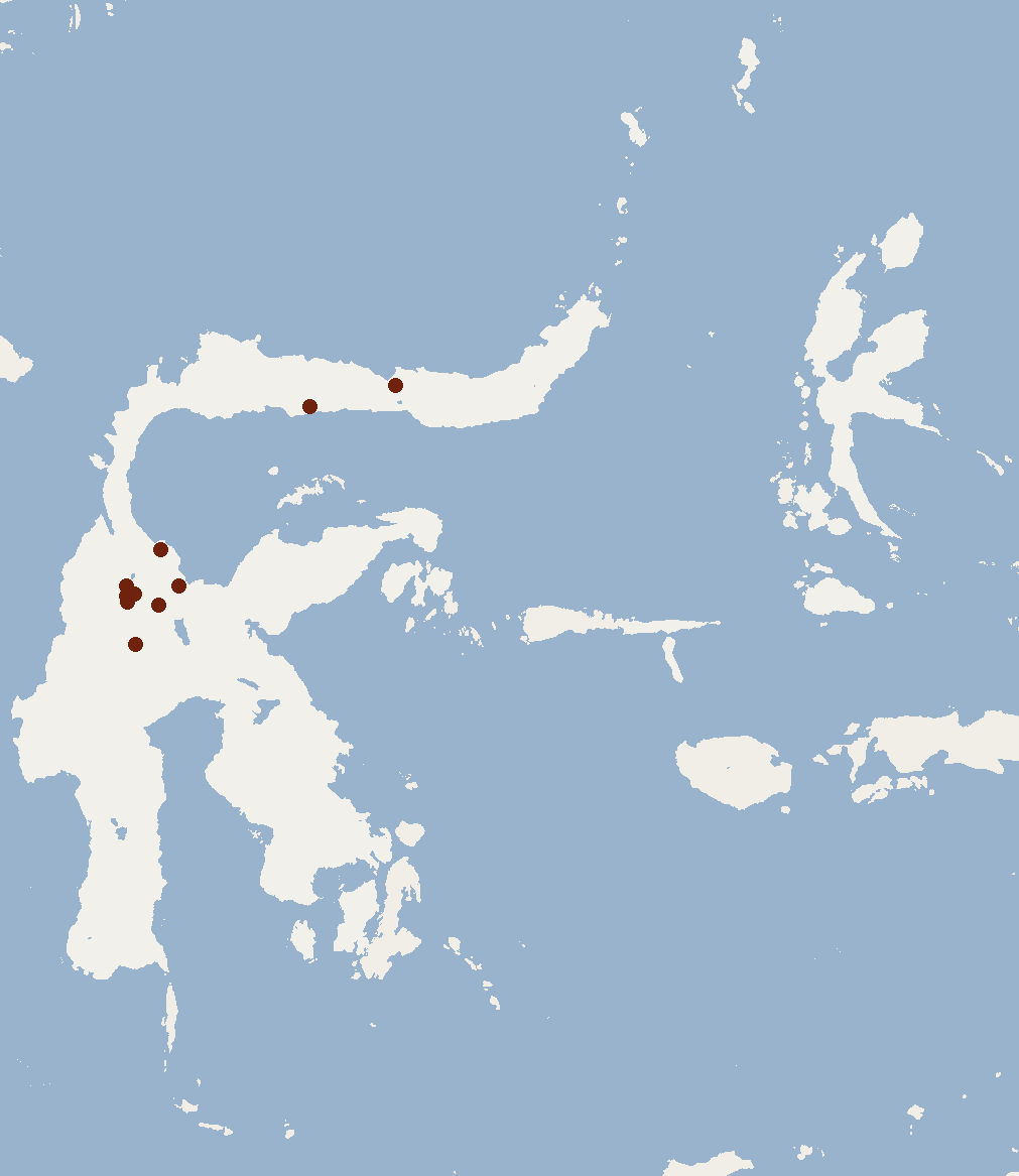 According to Musser & Durden, 2014